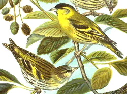 Eurasian Siskin